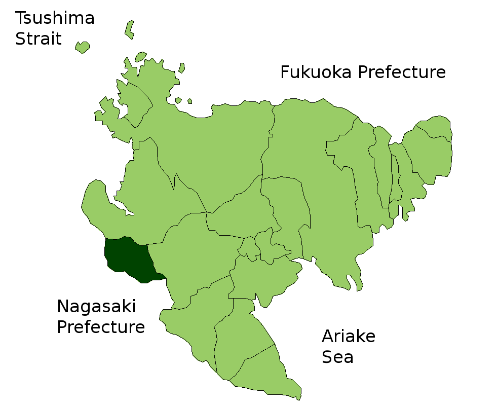 Location Map of Arita in Saga Prefecture, Japan